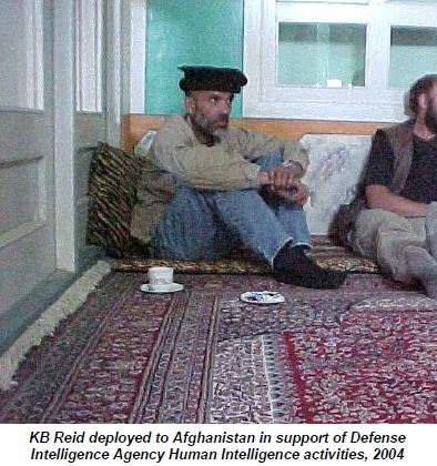 KB is pictured working in Afghanistan.